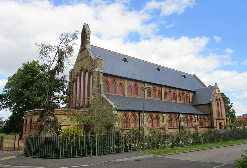 Gillinton's father place of work.